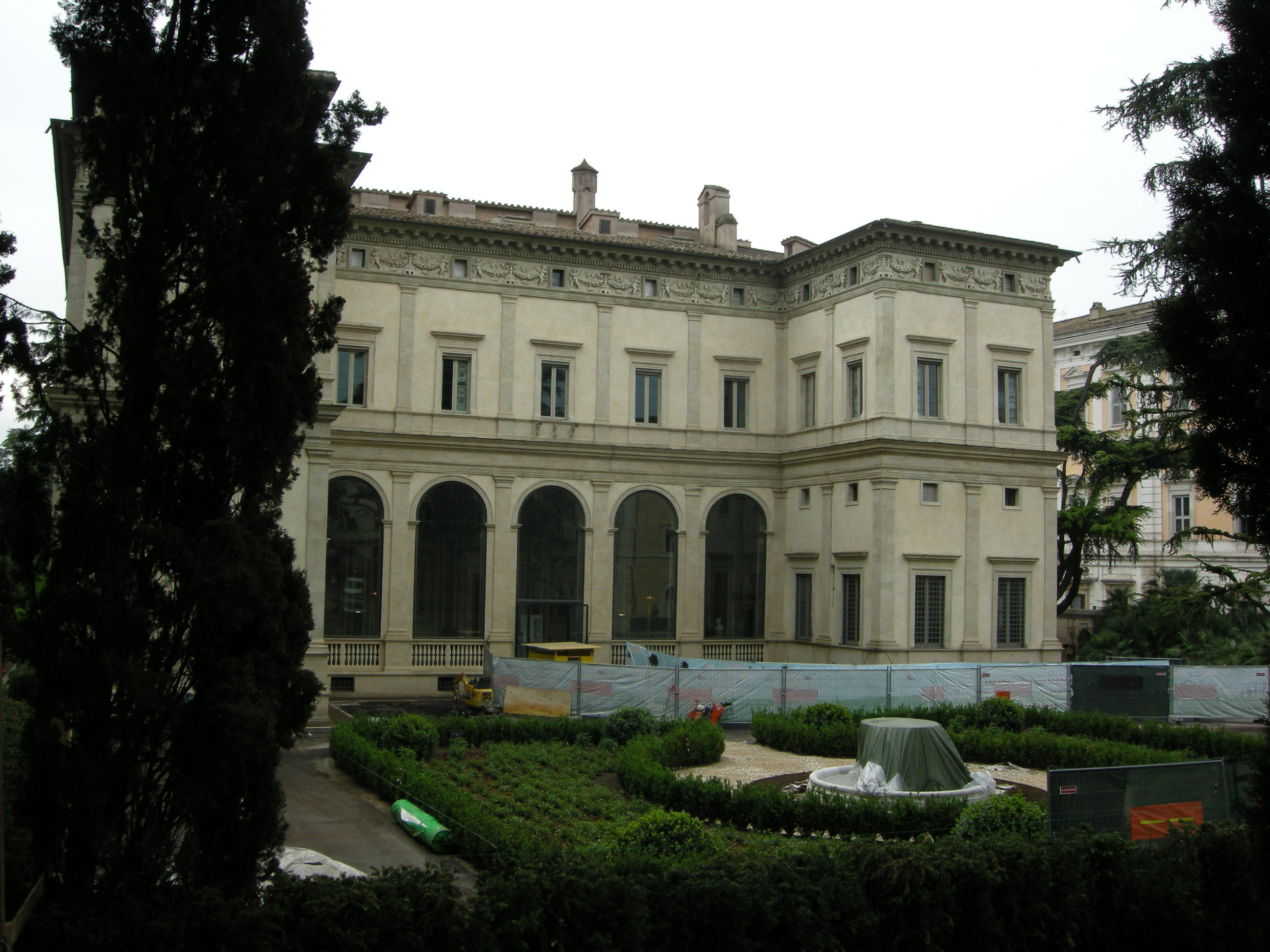 Villa Farnesina, Rome